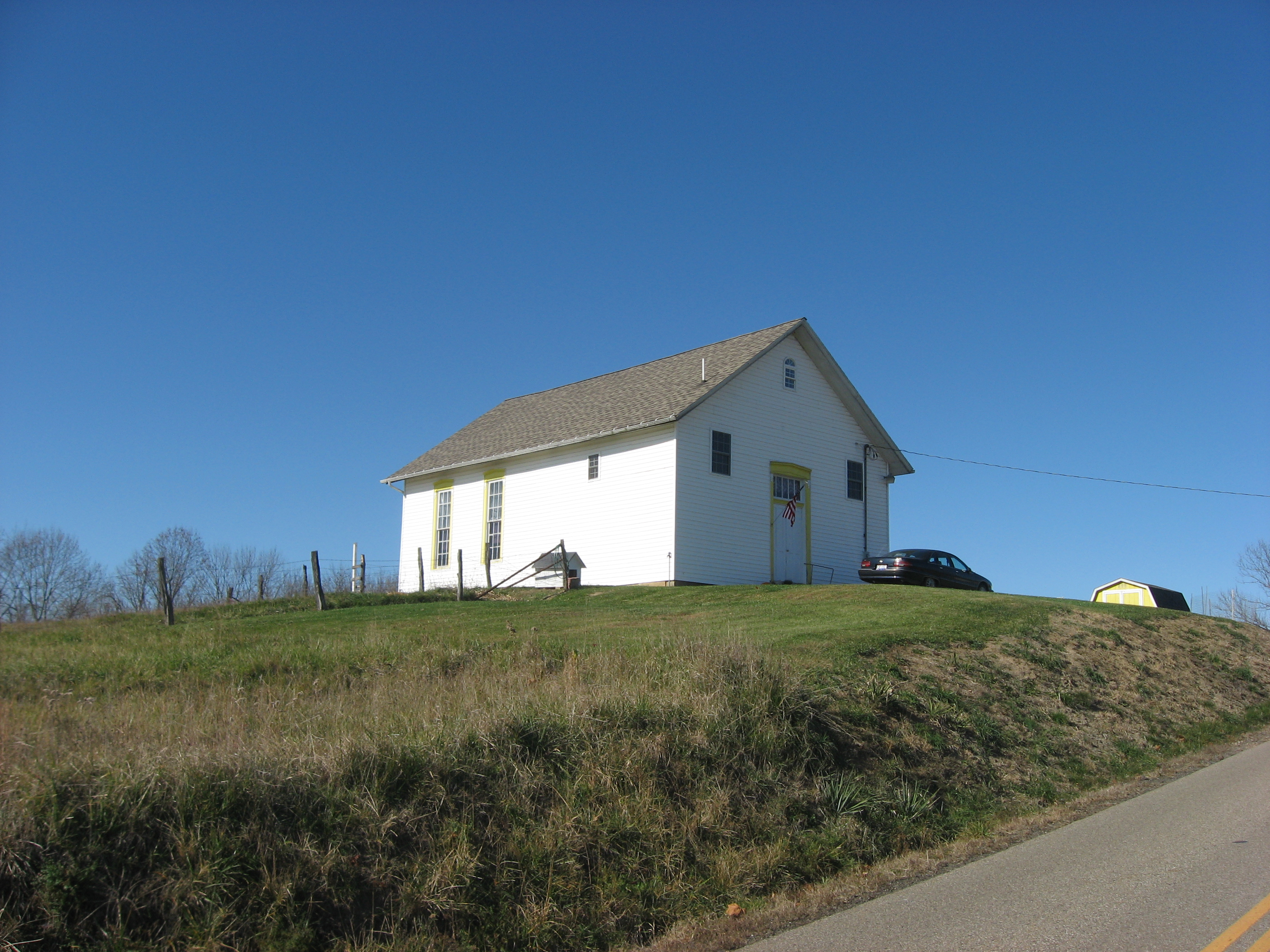 Front and southern side of the house at 3525 Wesley Chapel Road in northern Newton Township, Muskingum County, Ohio, United States. Built as the Jonathan's Creek Reformed Presbyterian Church, it was converted into a house after the church closed in 1963.